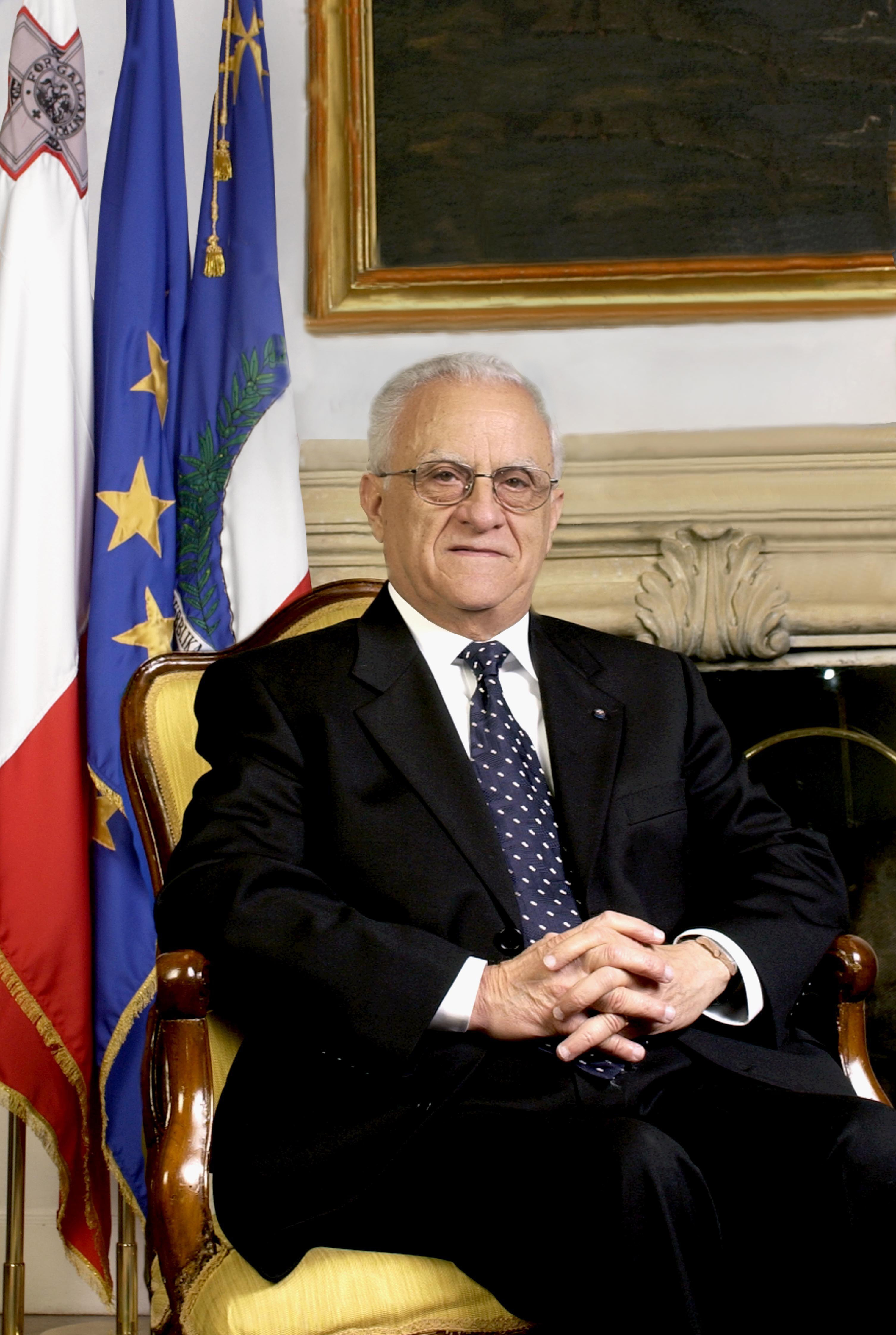 Official portrait of Edward Fenech Adami, the President of Malta.